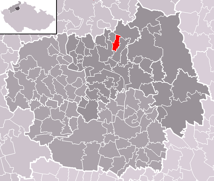 Location of Chudoslavice municipality within Litoměřice District and administrative area of Litoměřice as a Municipality with Extended Competence.